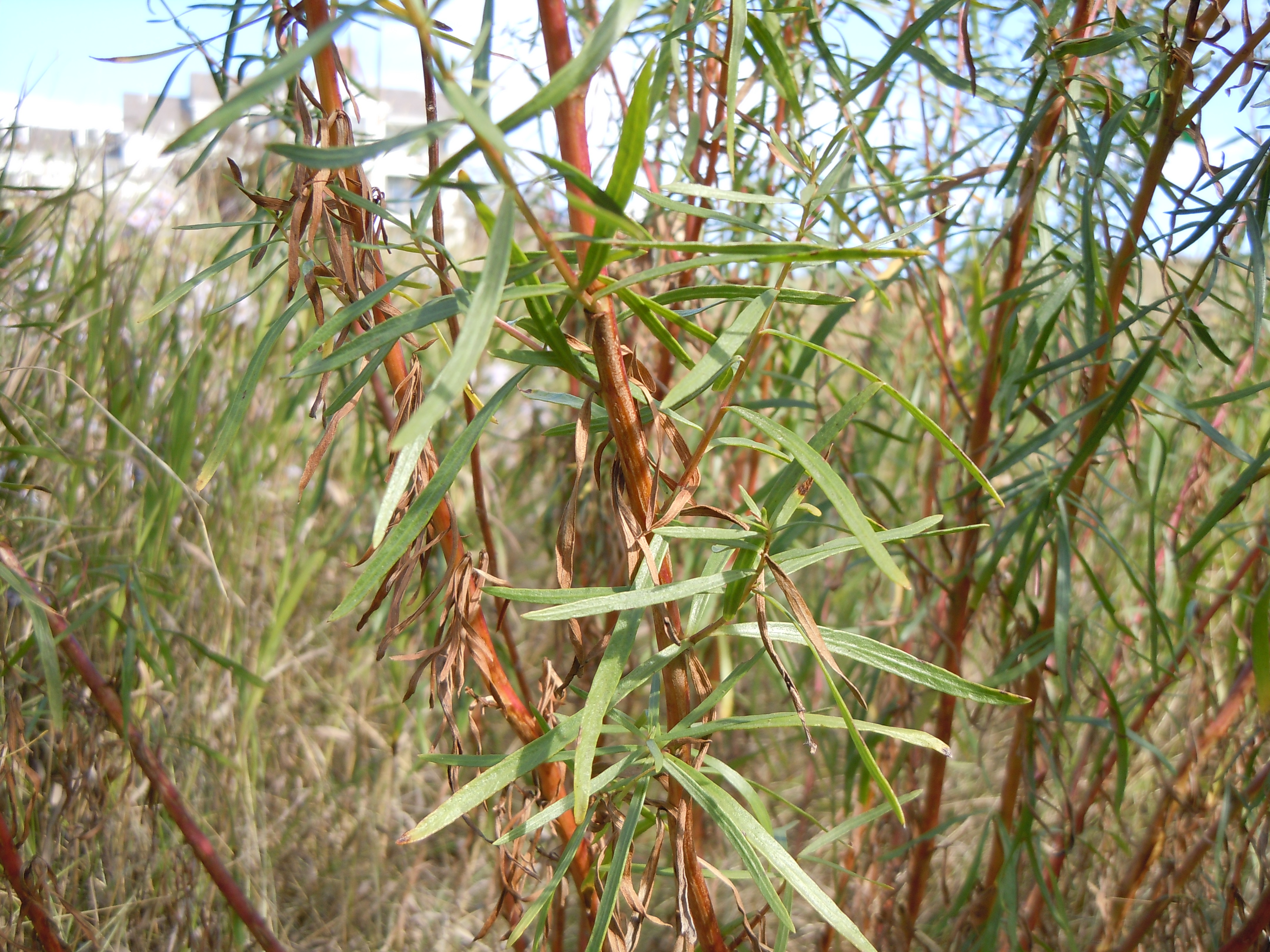 The leaves are simple and linear from the base to the tip of the stem.